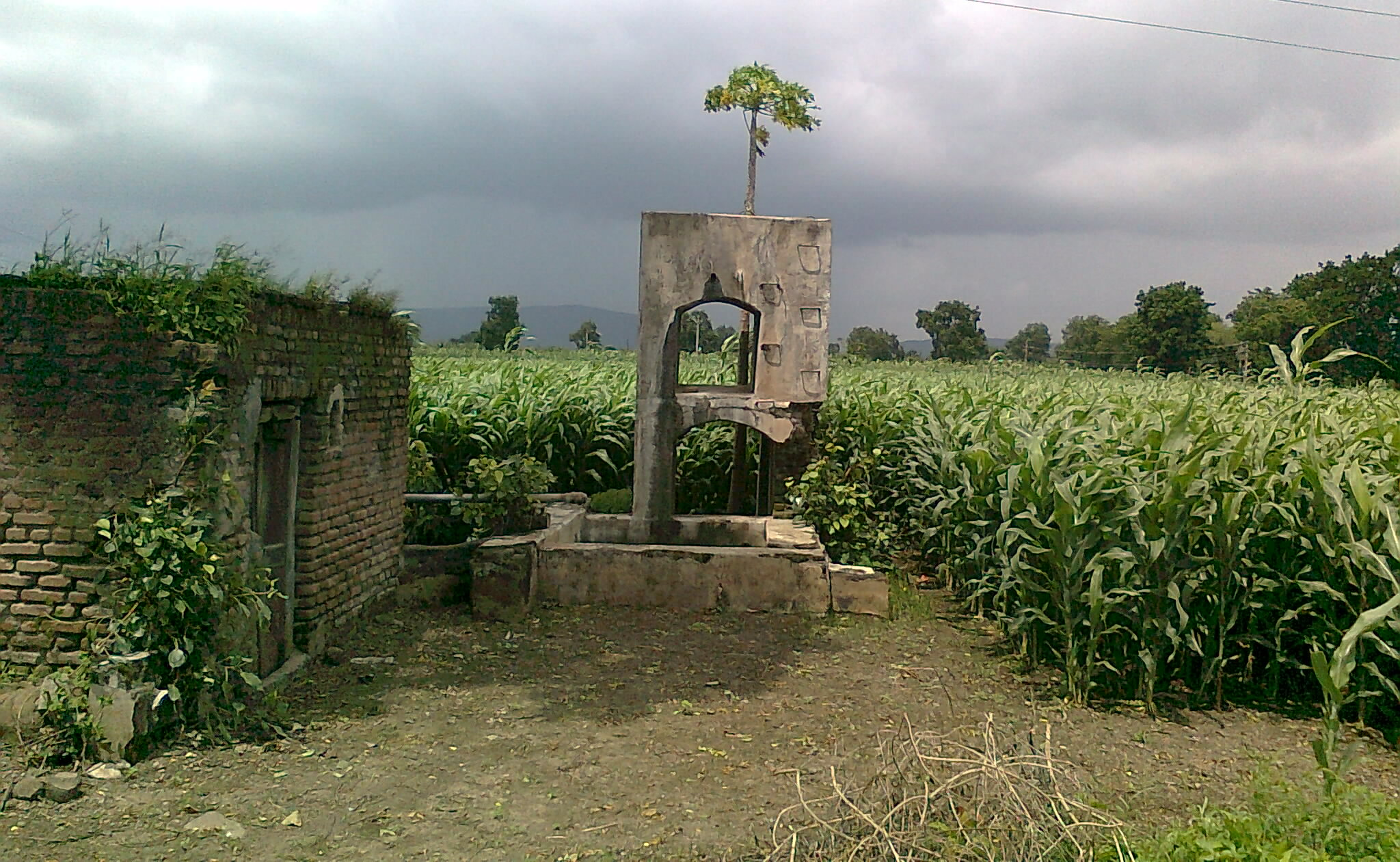 Water well and Sorghum farm on Chinawal-Savkheda road, Chinawal village, Maharashtra, India